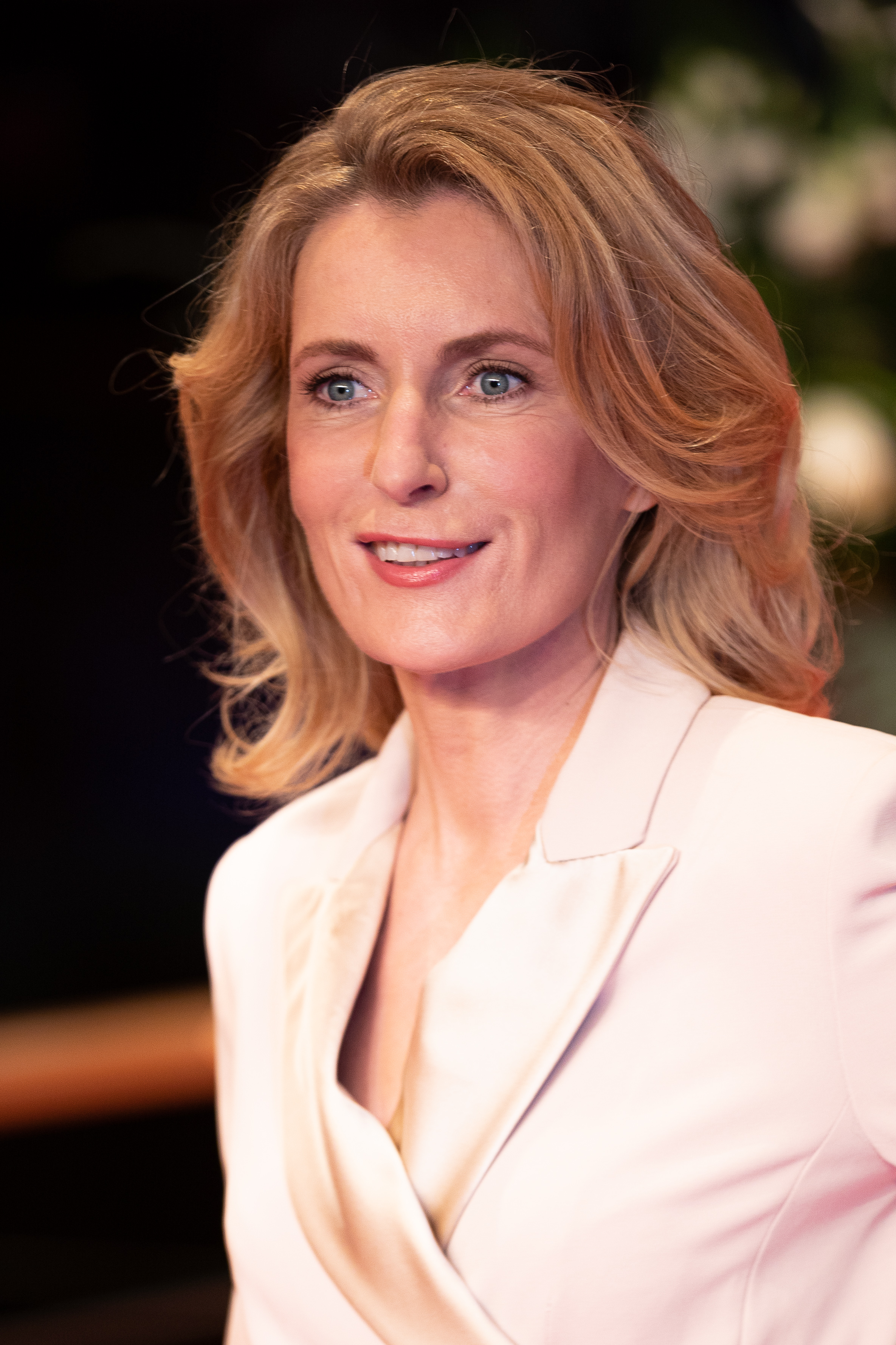 Maria Furtwängler at Berlinale 2020